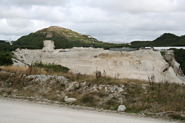 Clay Pit at Trethosa. One of the big holes in the ground which are dug by china clay extraction.